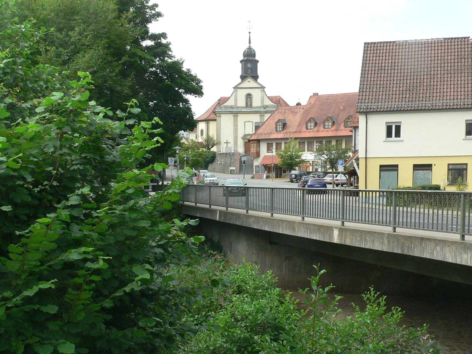 Mömbris: In the foreground the bridge across the river Kahl, in the middle the central square called "Am Markt" and behind the parish church.